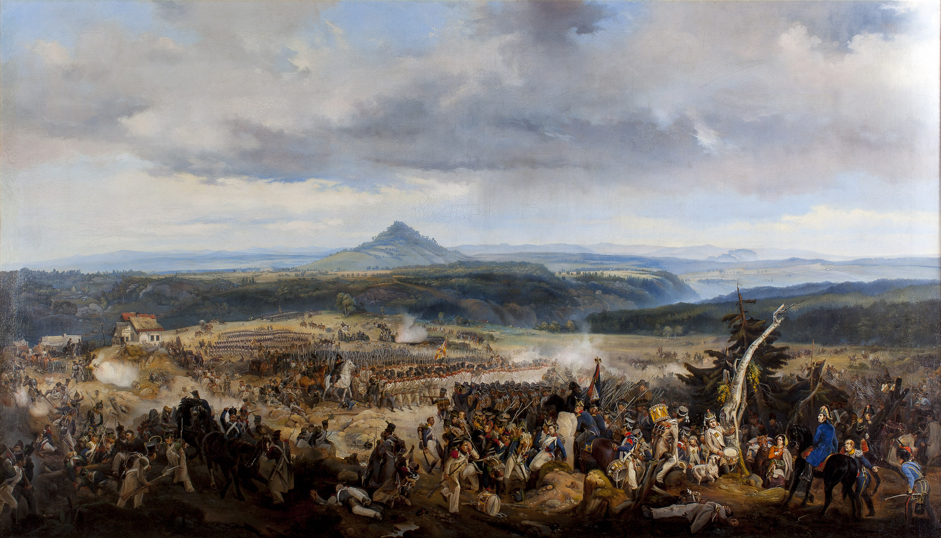 The battle at Gissgubel on August 16, 1813 (a day before the battle of Kulm). Russian painter B. Villevalde (Виллевальде Б.П.) . State Hermitage, S.-Petersburg.